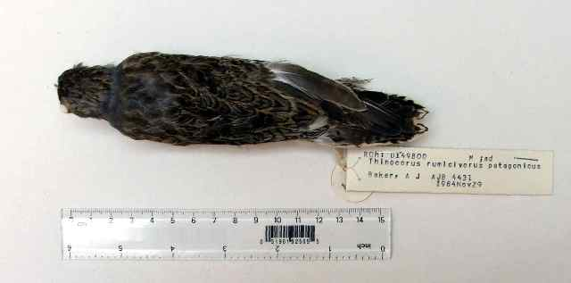 A study skin of a Least Seedsnipe, from the collections of the Royal Ontario Museum